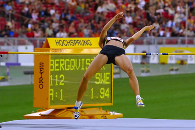 Kajsa Bergqvist at the Stuttgart meeting in 2006